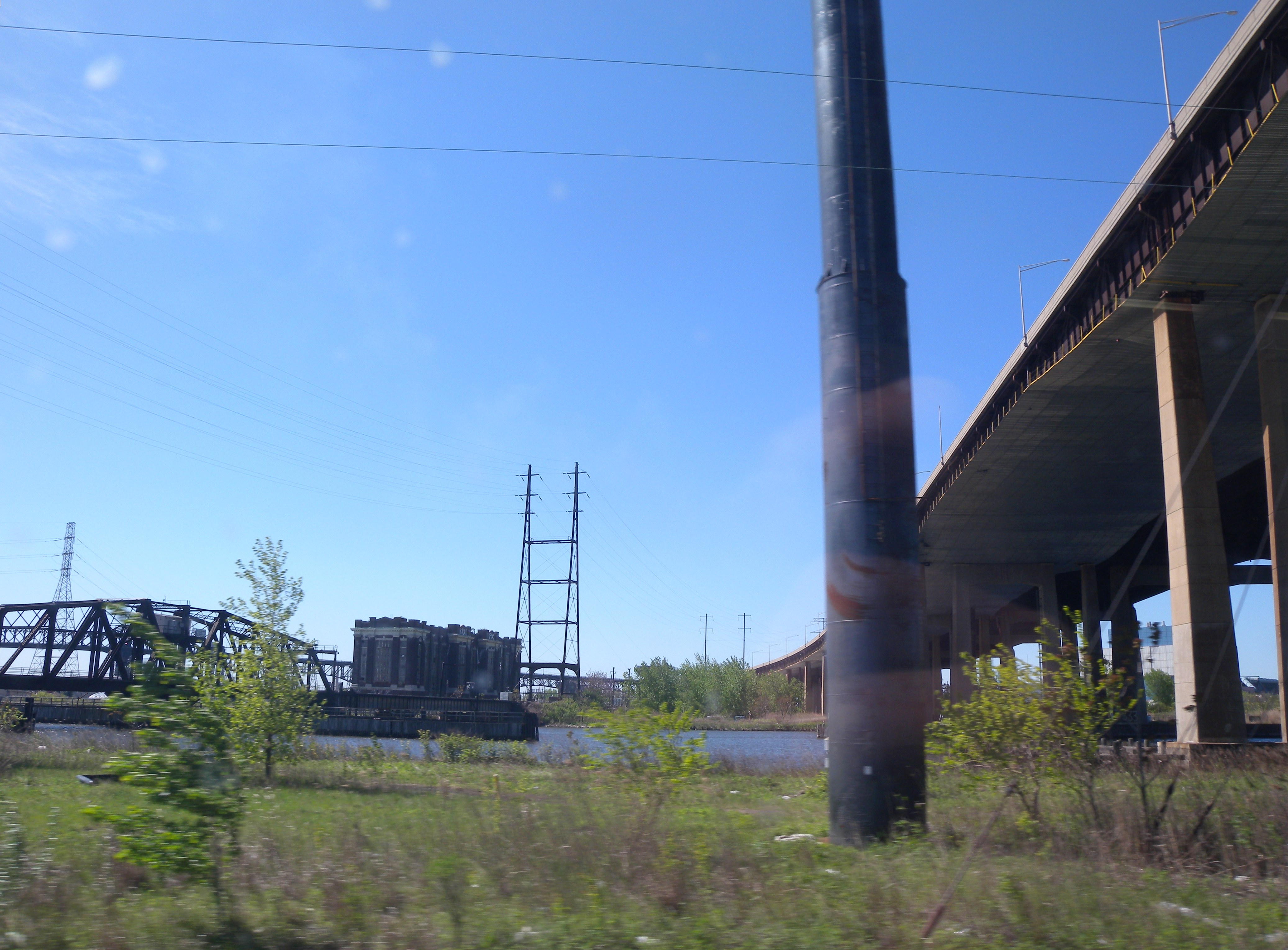 Looking south, past the mighty signpost of a highway billboard, from PATH train approaching Harrison, at the New Jersey Turnpike, and Point No Point rail bridge of CSX and NS, crossing Passaic River into Ironbound on a sunny late morning.